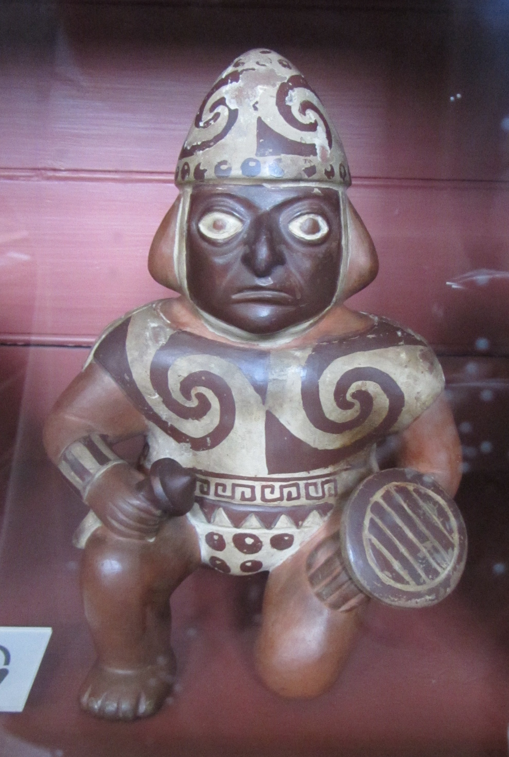 Moche warrior pot, from Moche, Peru, About AD 100–700. British Museum (Am,P.1).